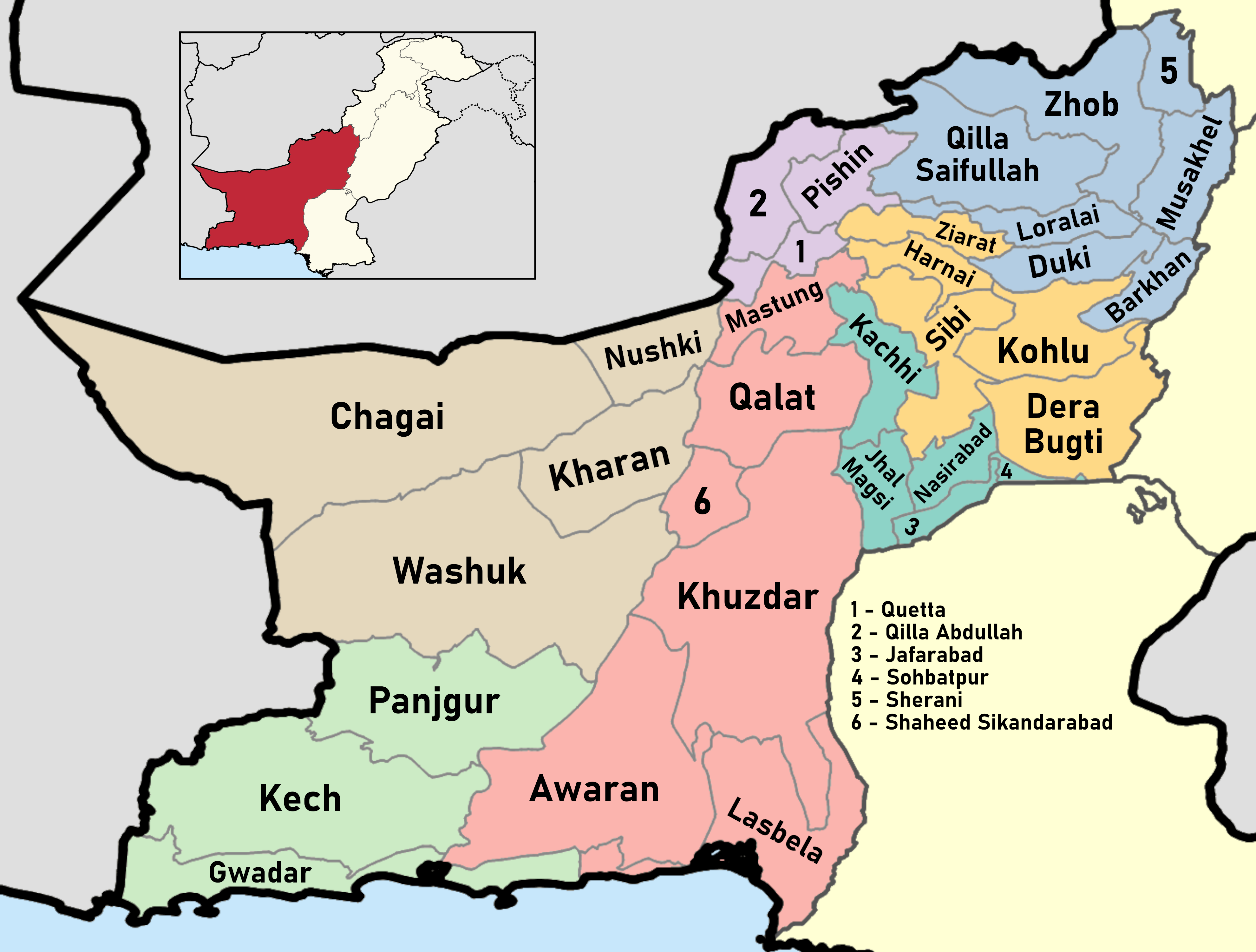 This is a map showing each and every district of Balochistan, along with its name. The map is accurate as of August 15, 2020 and has been made using data from the Pakistan Bureau of Statistics and UN OCHA's HumData Database (which citypopulation.de uses). Each color depicts a different administrative division (higher than a district but lower than a province). The same map with the district names not shown can be found here. A map showing every district in Pakistan can be found here. A category full of these maps listed nicely can be found here.